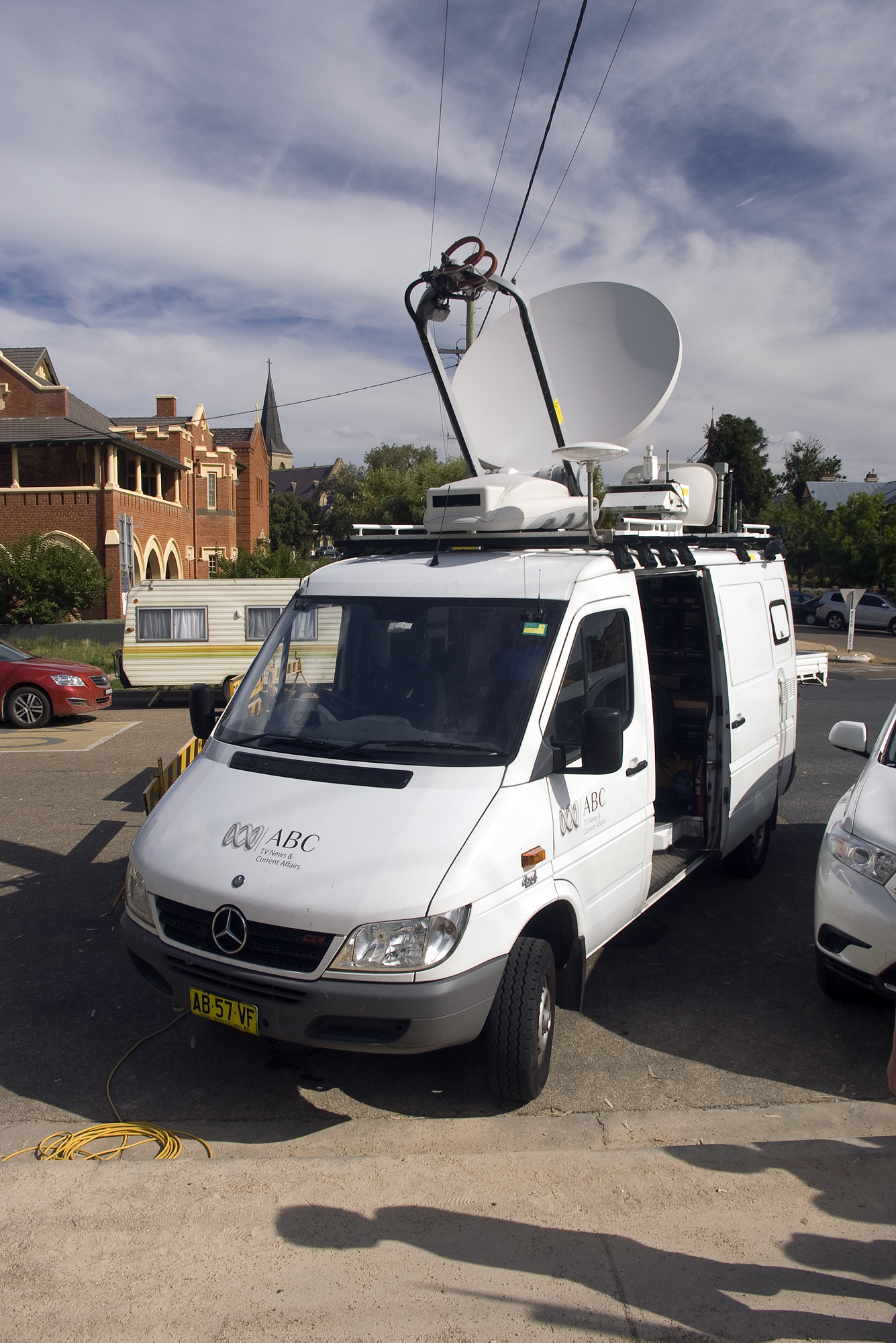 ABC News and Current Affairs broadcast van in Wagga Wagga.